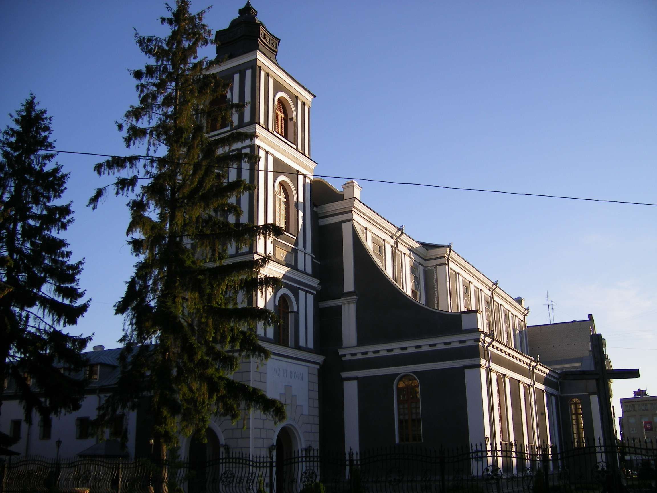 Zhytomyr, St. Ivan Church